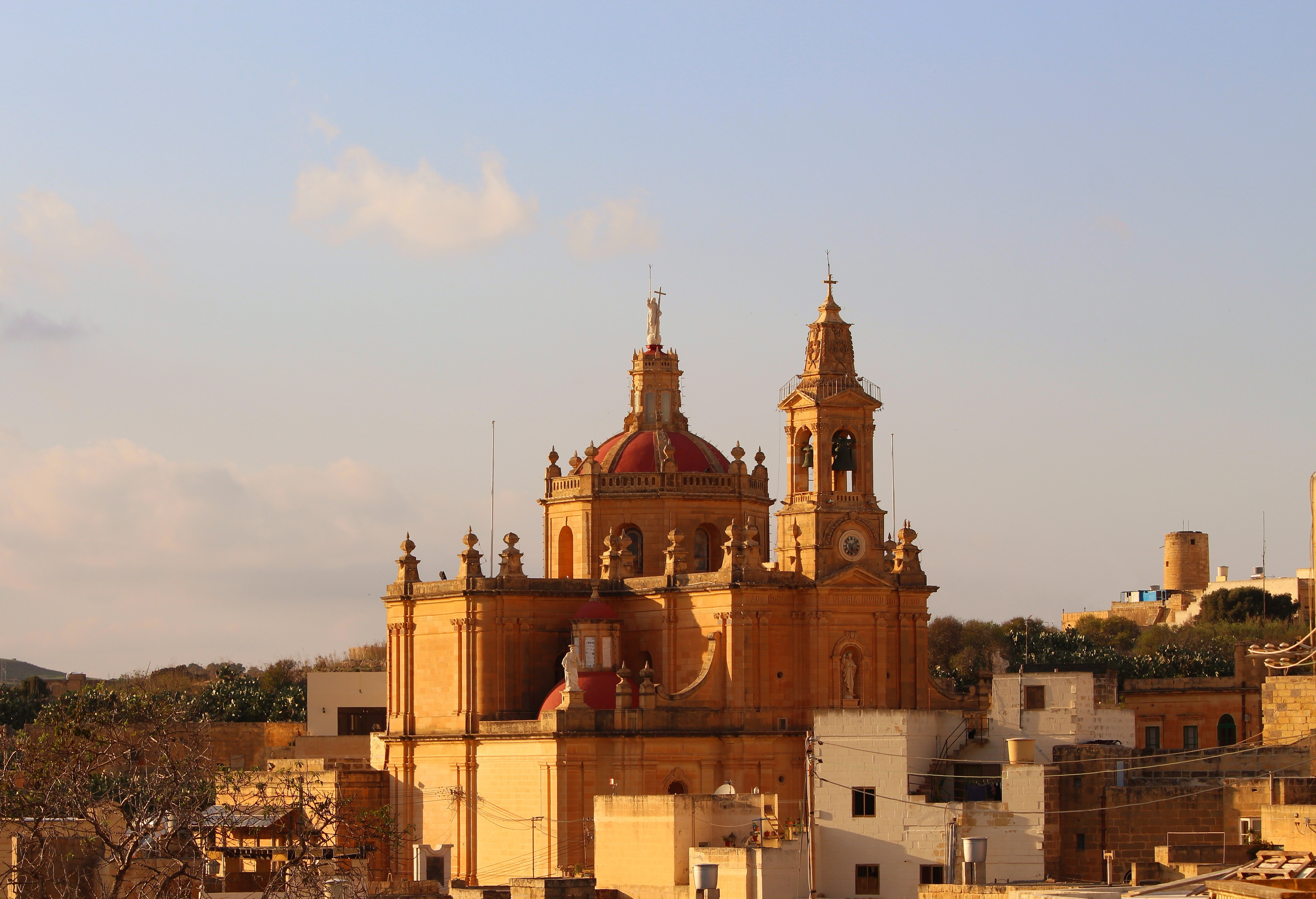 Parish Church of the Sacred Heart of Jesus This media is about Maltese cultural property with inventory number 00942.